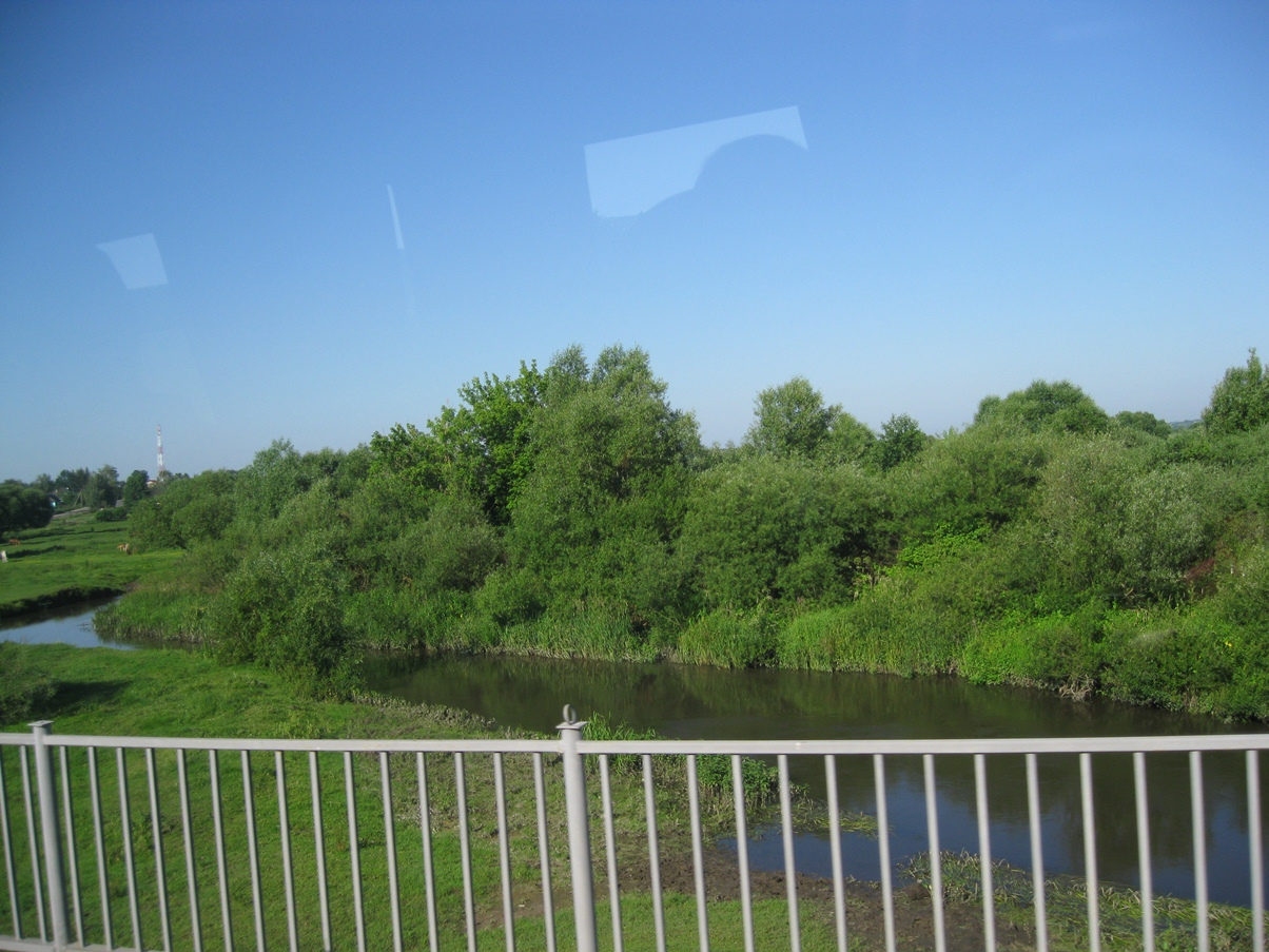 Vilia River. P26 road